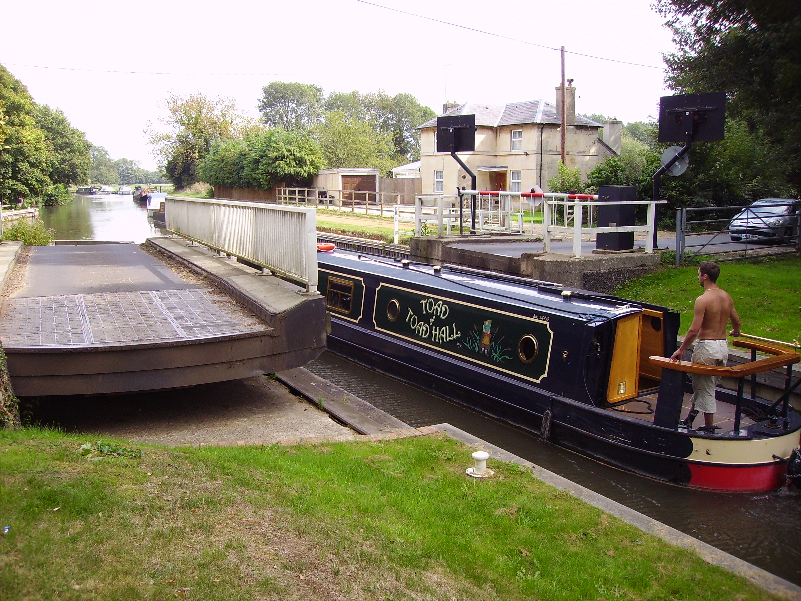 Photographer: User:Ballista